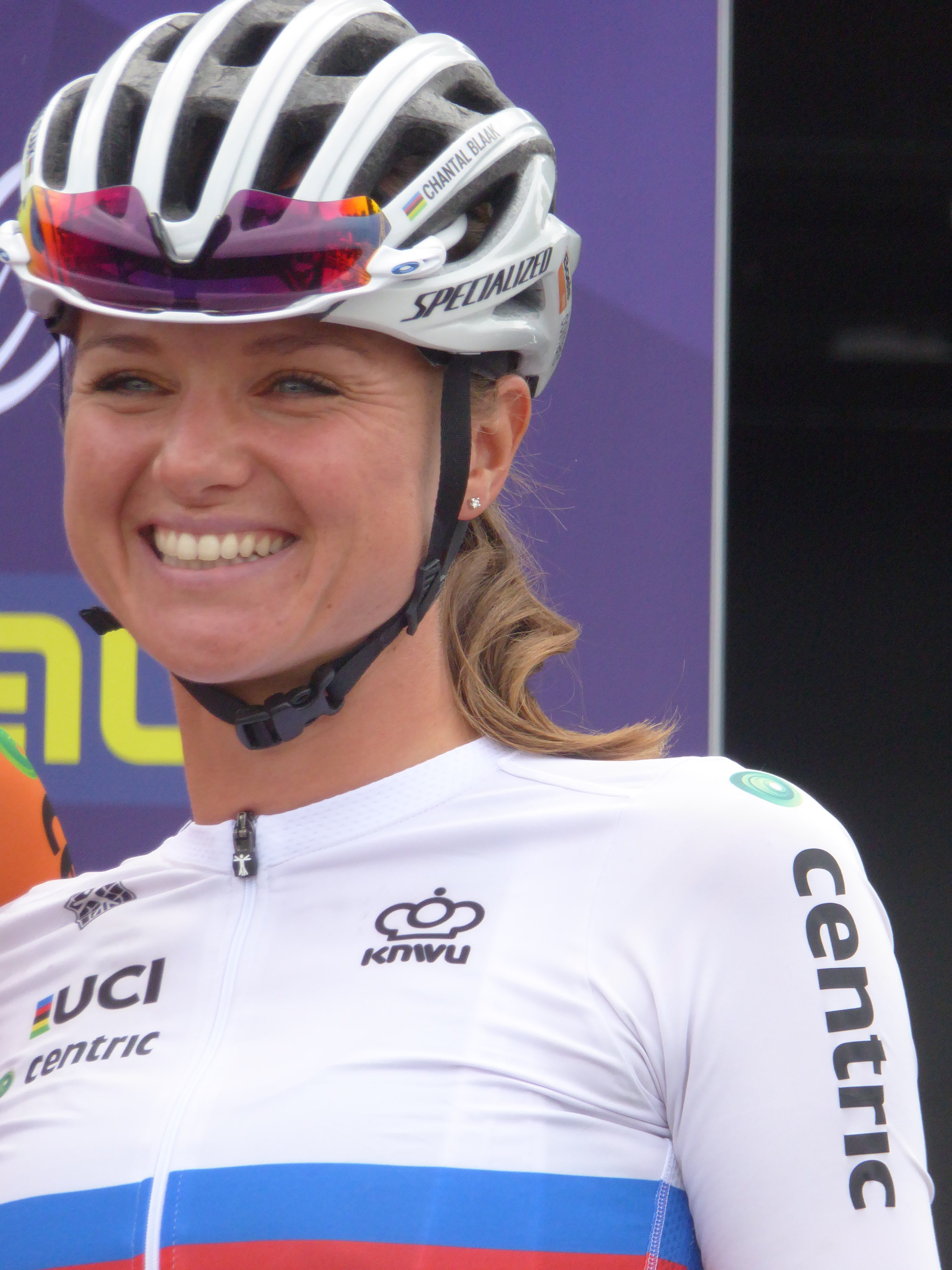 Chantal Blaak (Netherlands), prior to the women's road race at the 2018 UEC European Road Cycling Championships in Glasgow.